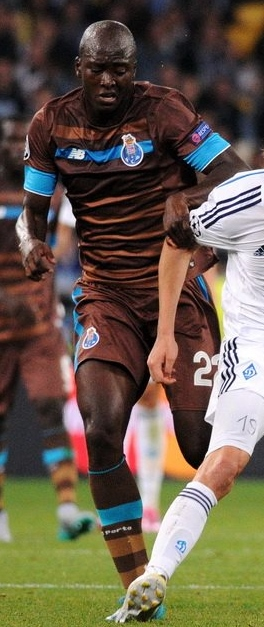 Danilo Luís Hélio Pereira